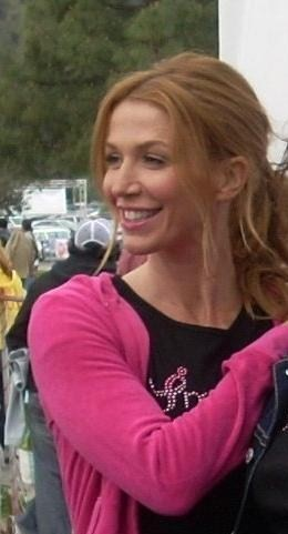 Actress Poppy Montgomery ("Without a Trace") - Susan G. Komen Race for the Cure, Pasadena.